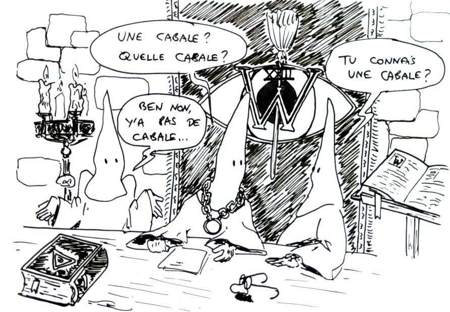 (From right to left) Have you heard about a Cabal? A Cabal? What Cabal? Why no, there's no such thing...